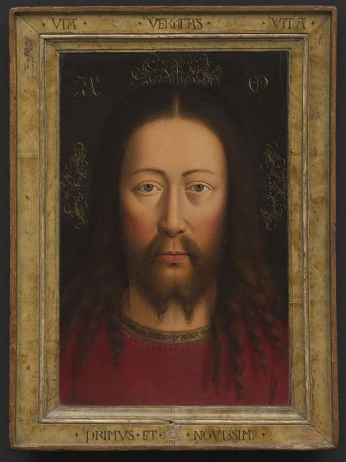 Vera Icon. Dimensions: 50,6 x 37,3 cm (including original frame). Previously in the church of Saint Servatius in Maastricht, Netherlands. In 1817 bought by German collector Melchior Boisserée (1786-1851). Sold in 1827 to the Königliche Gemäldegalerie in Munich, now Alte Pinakothek.